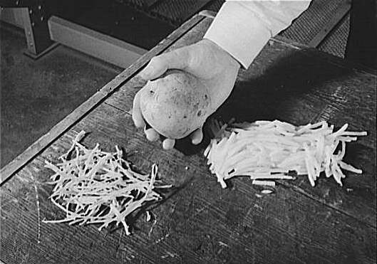 Potato, dehydrated (left), whole (center), and sliced (right)